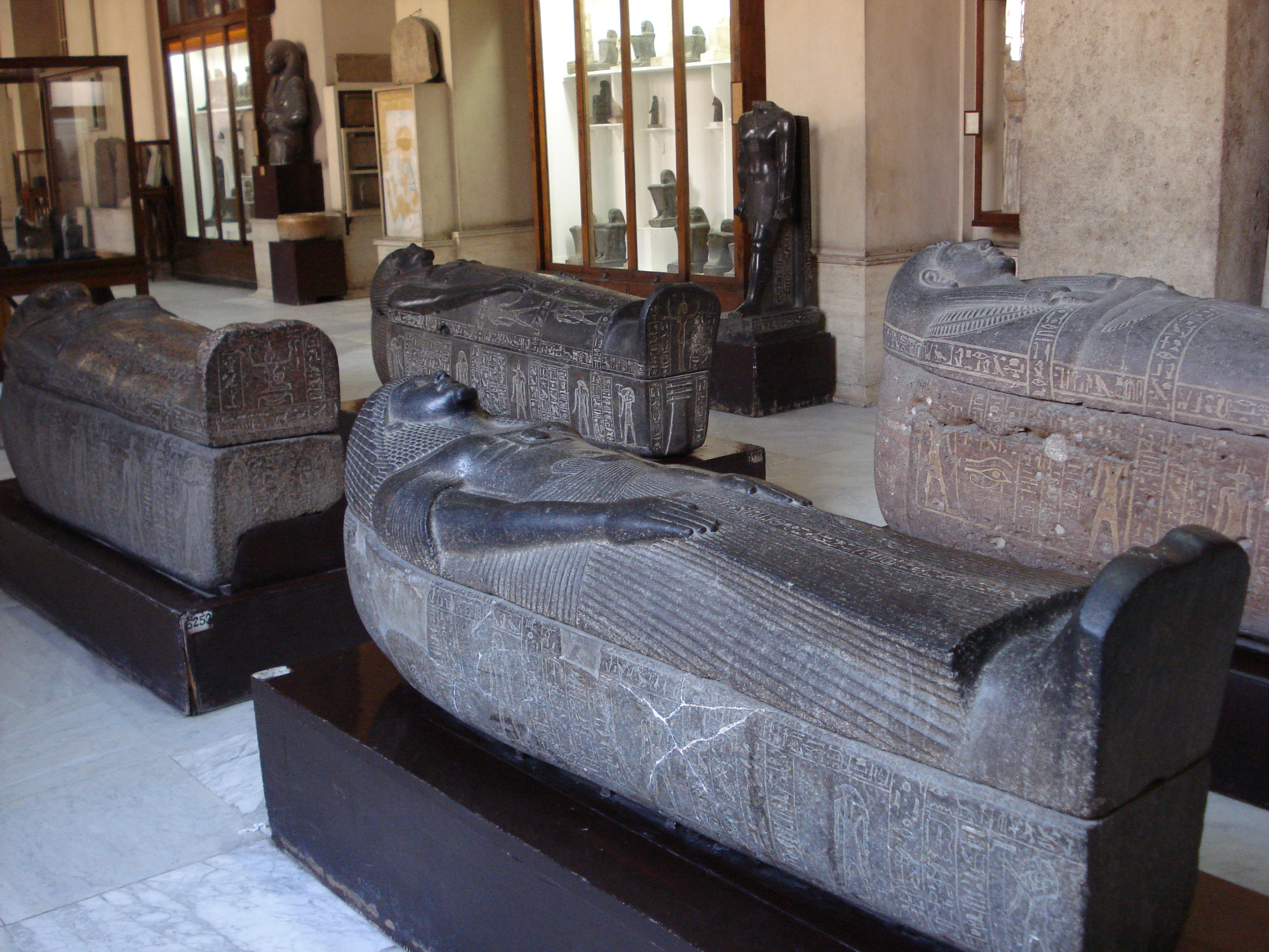 Egyptian Museum; Sarcophagus of the overseer of the southern foreign lands, Khay